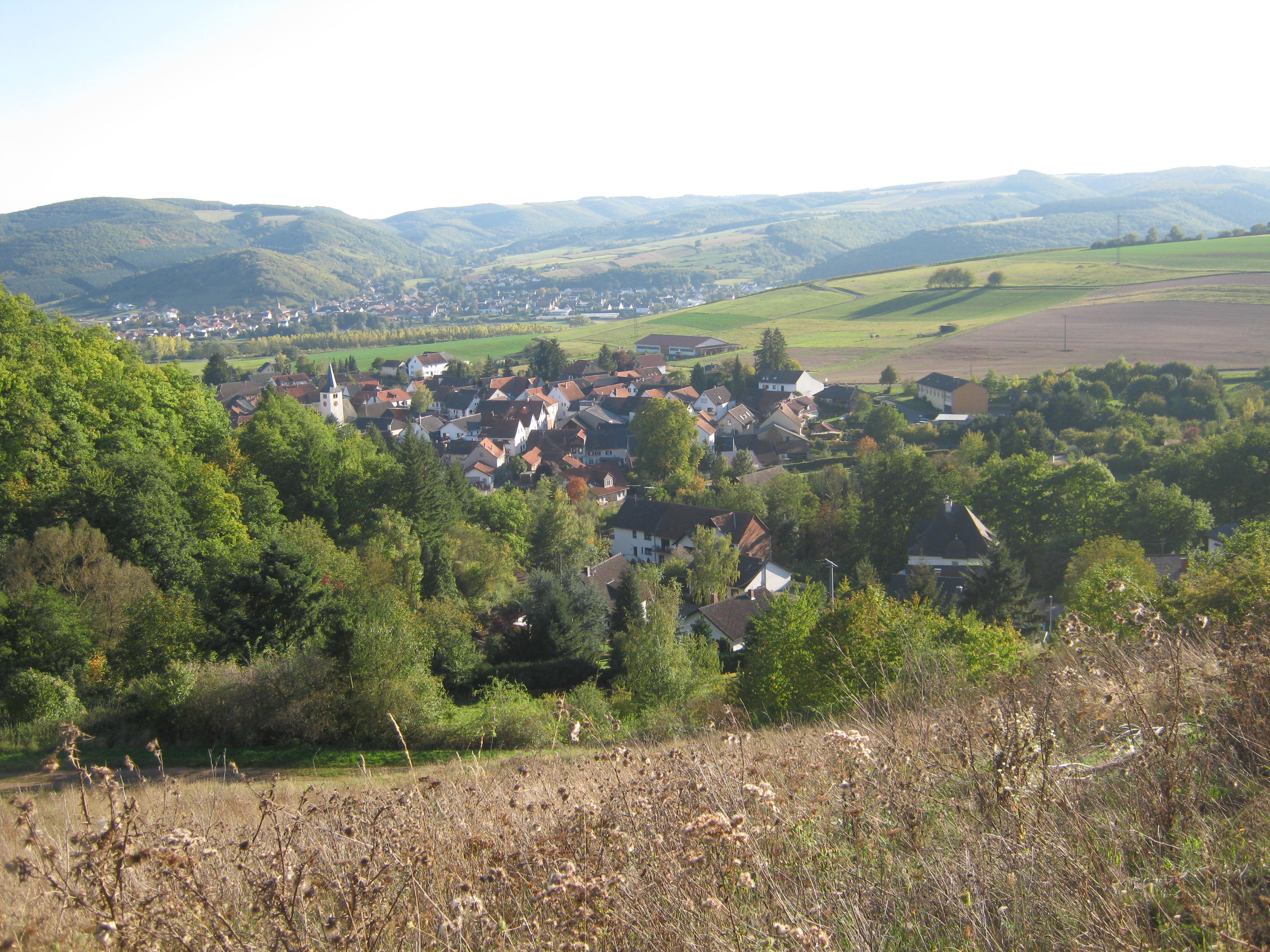 Village Weiler in the Nahe valley, Germany.